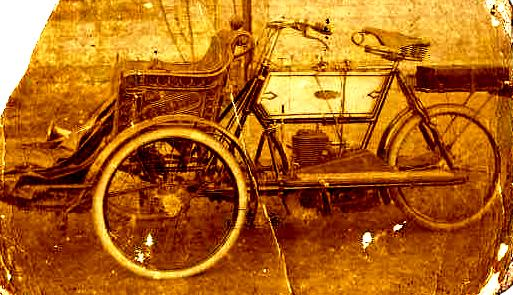 Photo of Ariel tricycle taken 1902 by my grandfather C J Brookes(deceased 1952), and bequeathed to me.